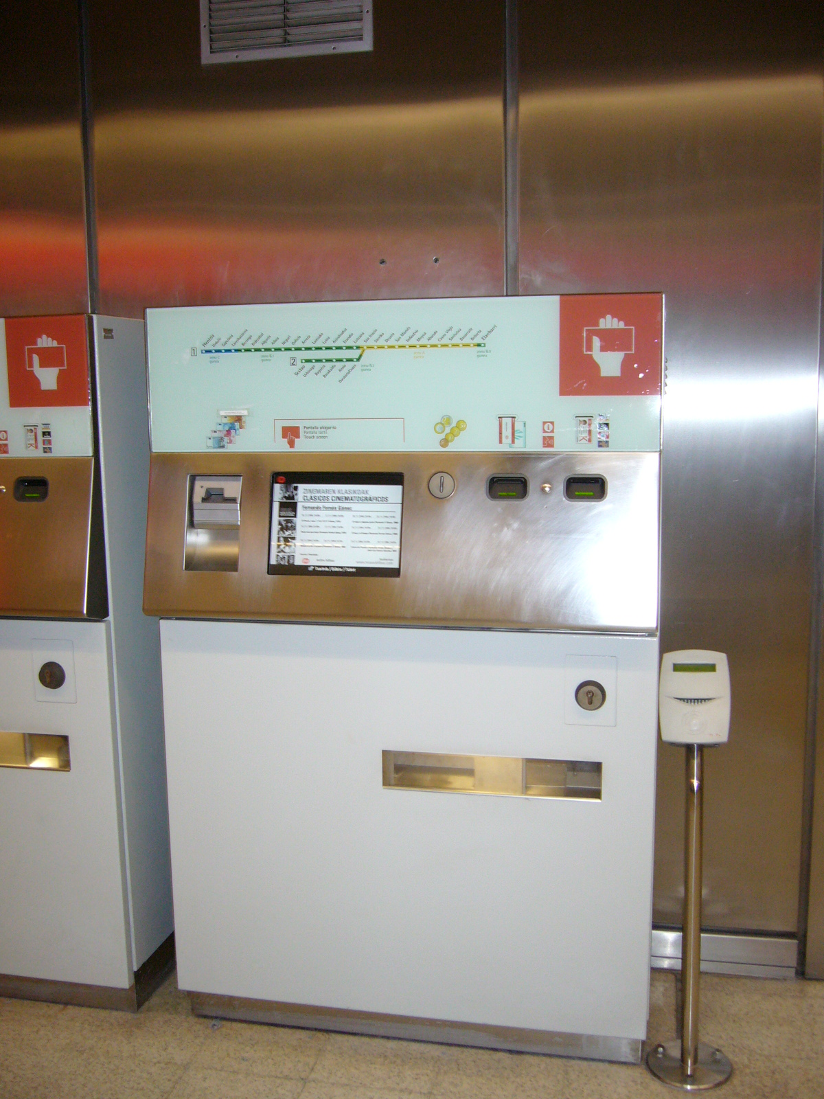 Metro Bilbao, ticket machine 23 nov 2006.